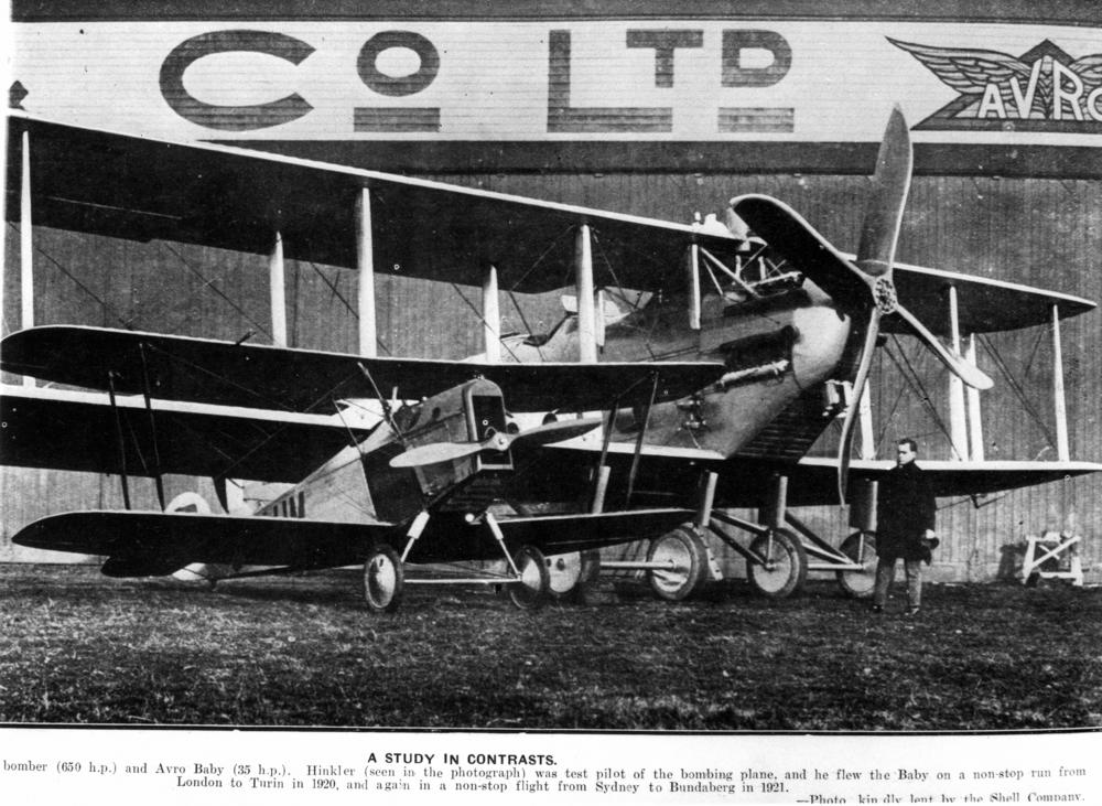 Bert Hinkler standing in front of his Avro Baby and the Avro Aldershot II in a study of contrasts; Avro Aldershot II J6852 (1000 h.p.) and Avro Baby G-EACQ (35 h.p.). Hinkler was a test pilot of the Aldershot II and flew the Baby on a non-stop flight from London to Turin in 1920 and again in a non-stop flight from Sydney to Bundaberg in 1921. Bert Hinkler standing in front of two aeroplanes. A study of contrasts. Bomber (650 h.p.) and Baby Avro (35 h.p.). Hinkler was the test pilot of the bombing plane and flew the Baby on a non-stop run from London to Turin in 1920 and again in a non-stop flight from Sydney to Bundaberg in 1921. (Description supplied with photograph.).